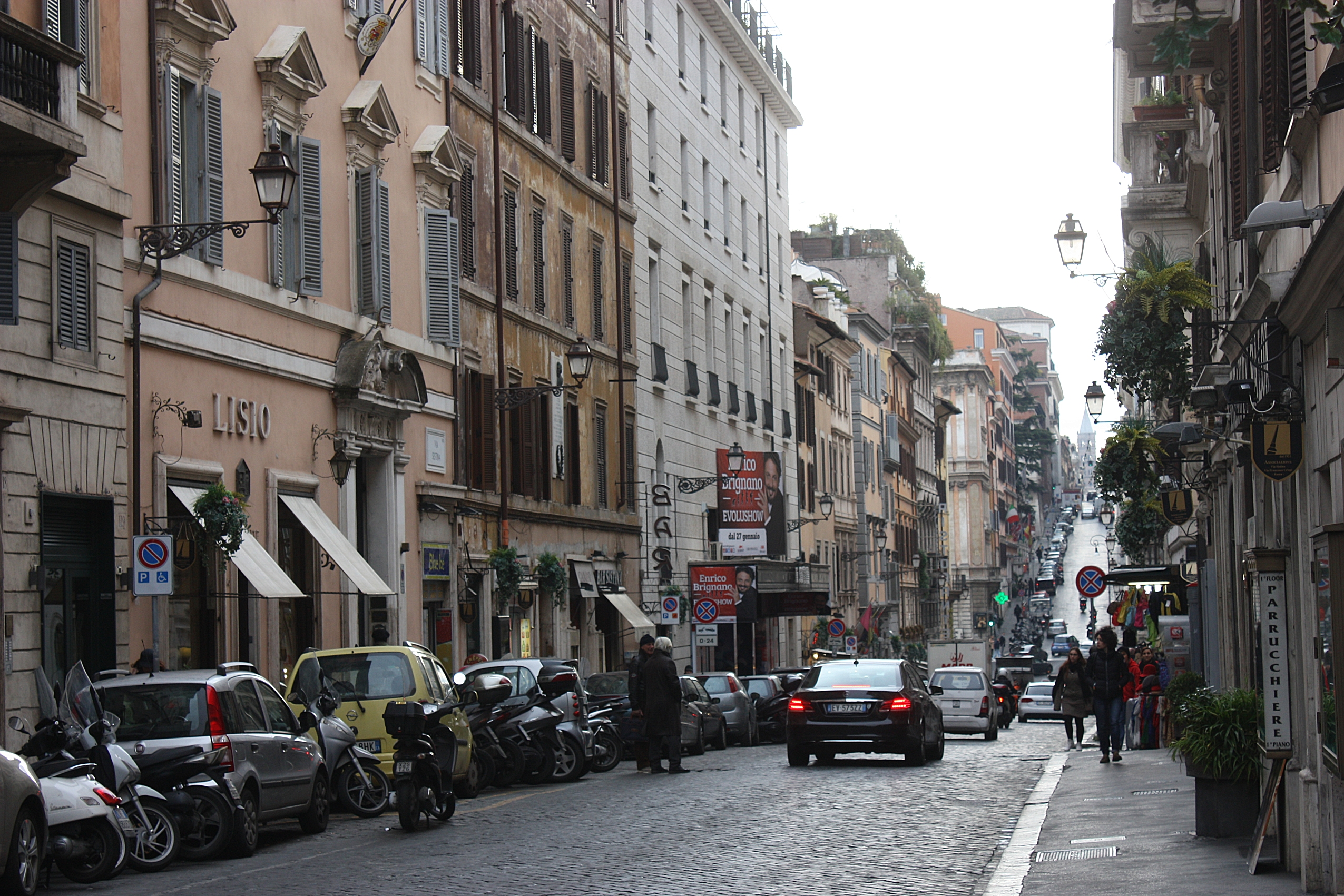 Rome, the street Via Sistina